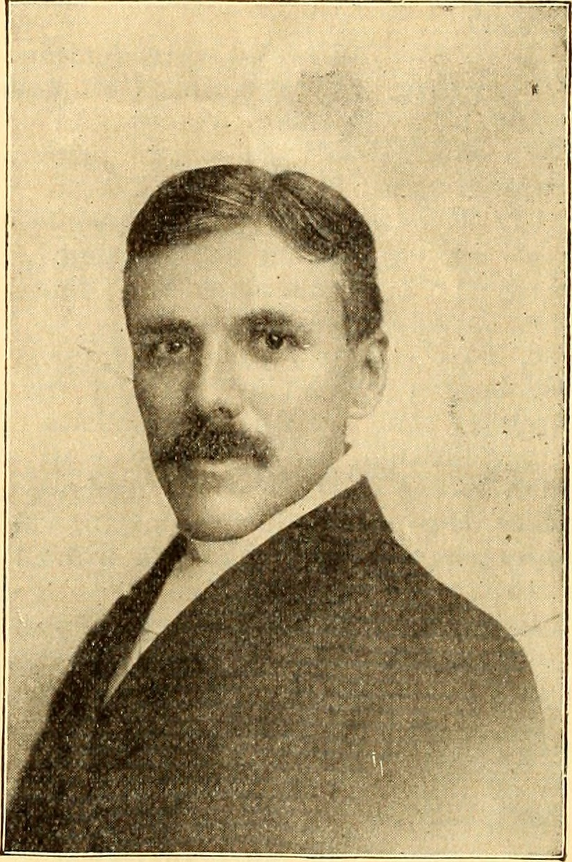 Newell Dwight Hillis, a Congregationalist minister, writer, and philosopher from Brooklyn. He served as pastor of the historic Plymouth Church of the Pilgrims in Brooklyn, and he oversaw the completion of the last major renovation of the church.